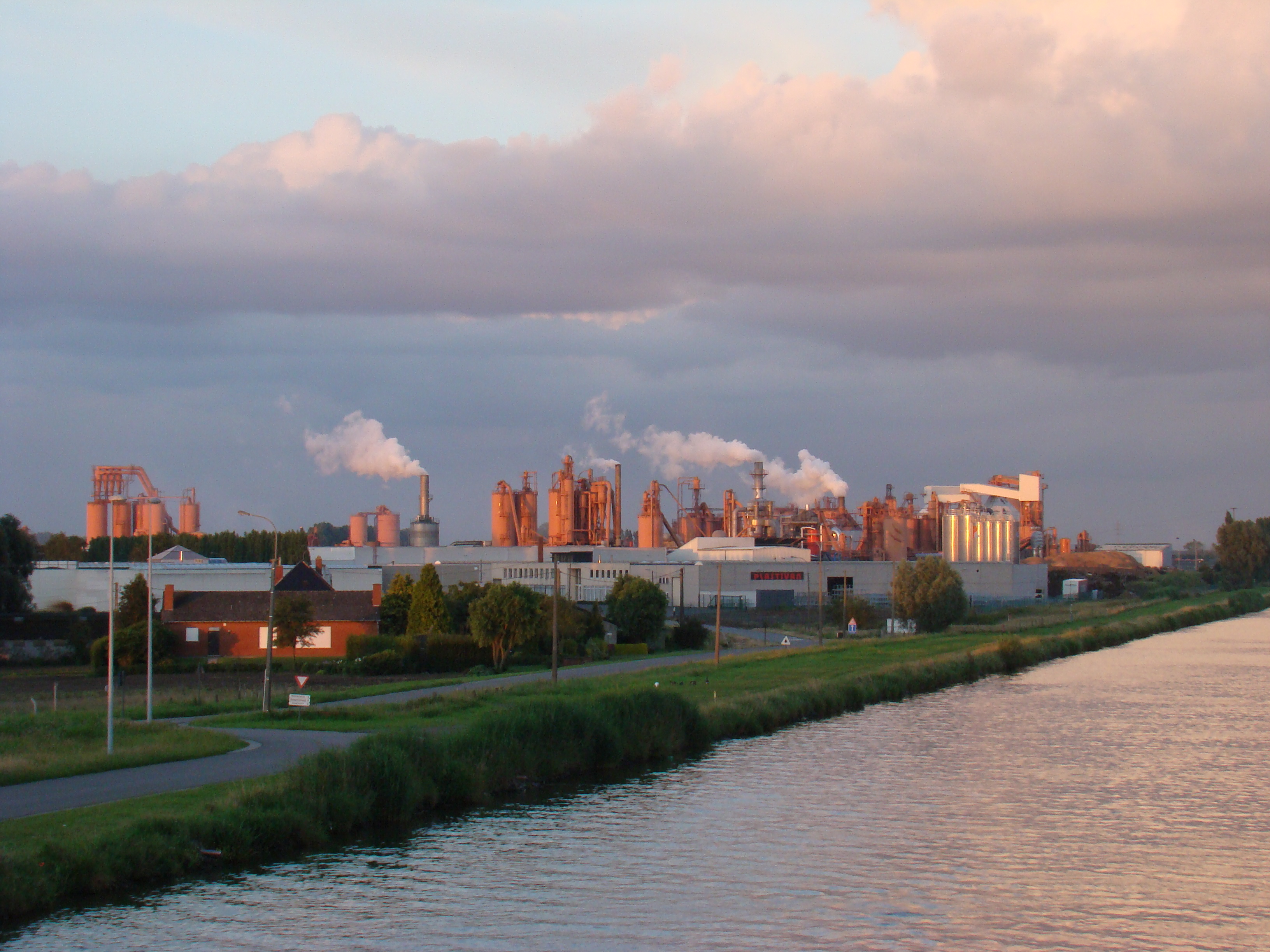 Canal Roeselare-Leie From Wantebrug Oostrozebeke (West Flanders, Belgium)